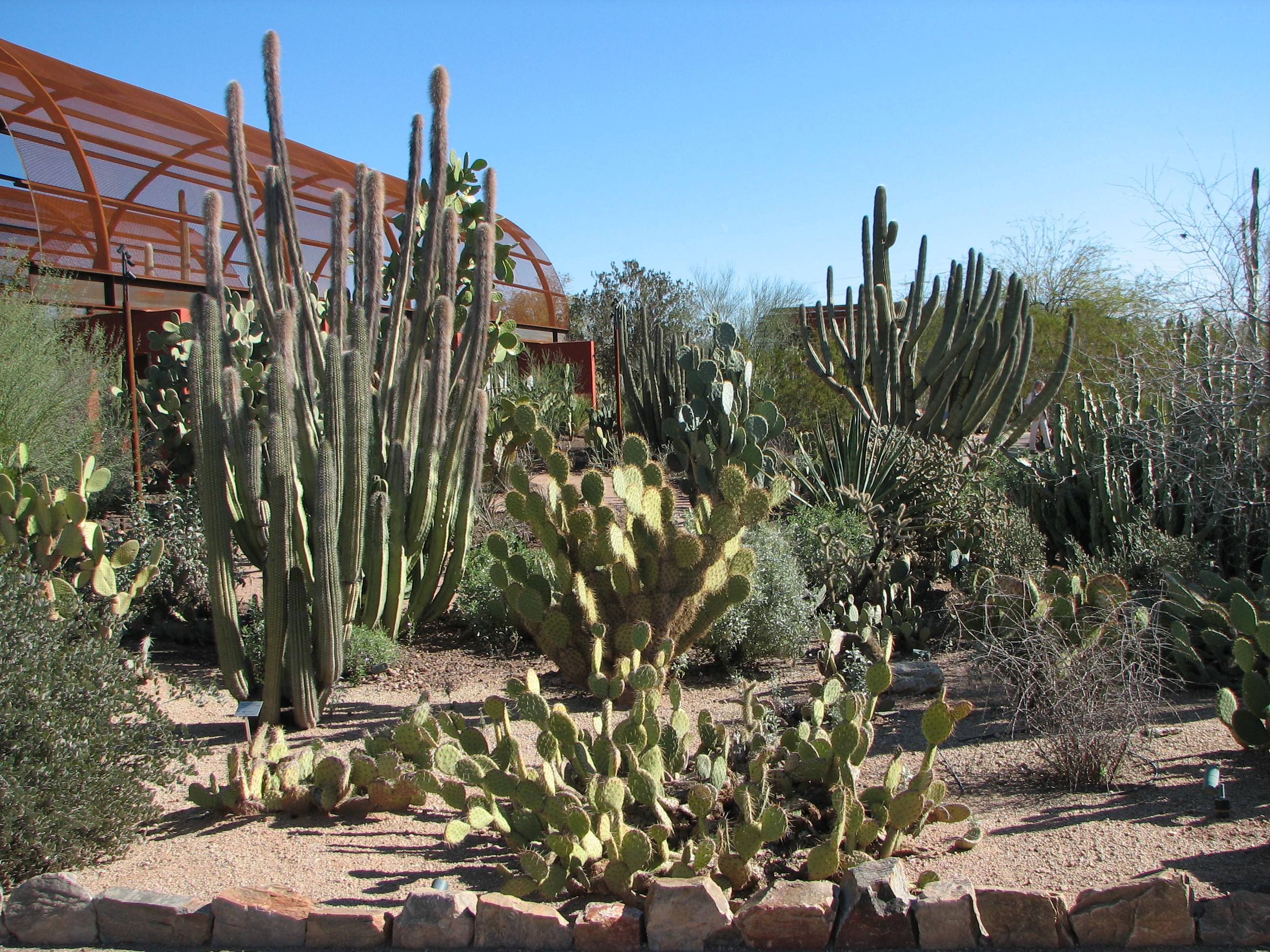 Cacti at the Desert Botanical Garden, Phoenix, Arizona, USA